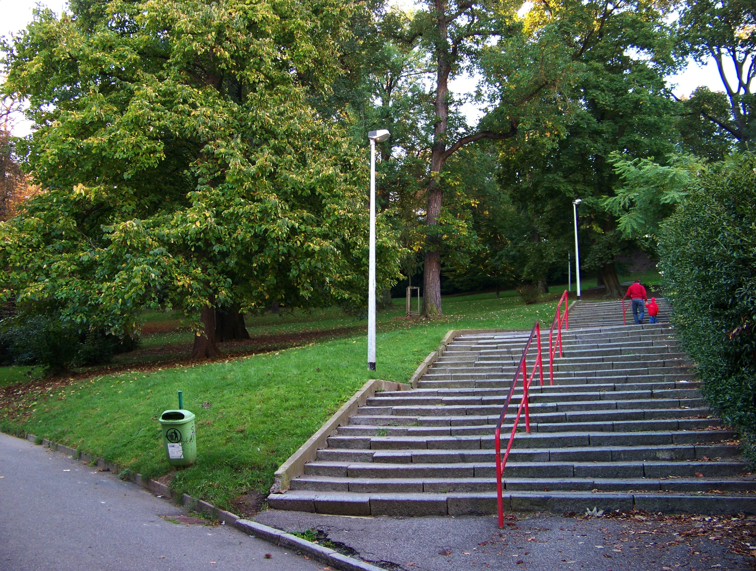 Prague-Smíchov, the Czech Republic. Santoška estate. A staircase.